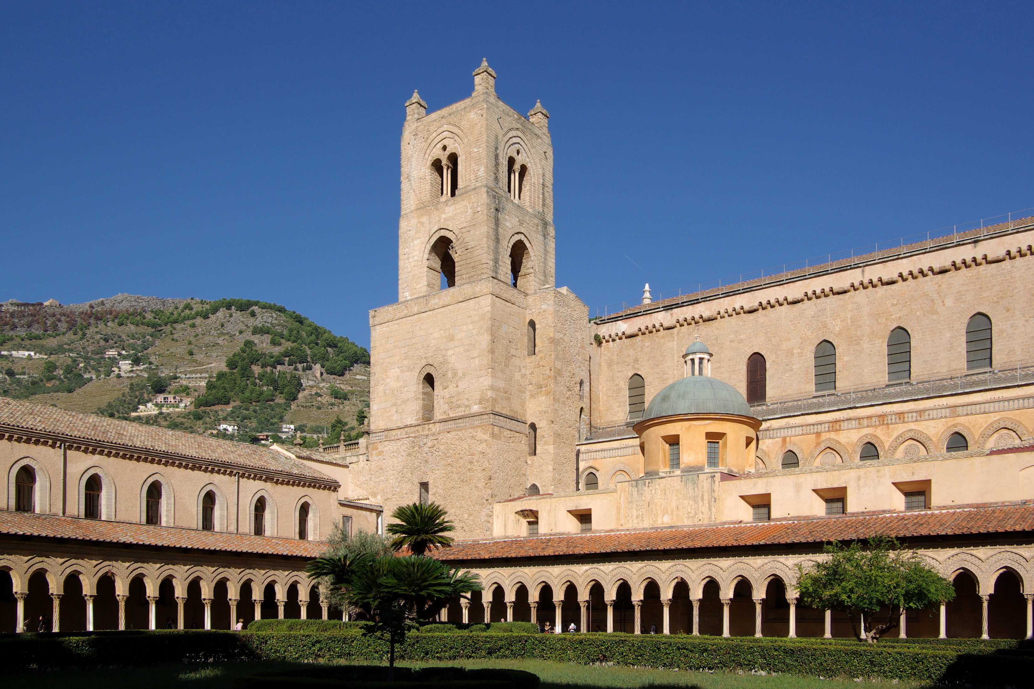 Italy, Sicily, Monreale, Cathedral